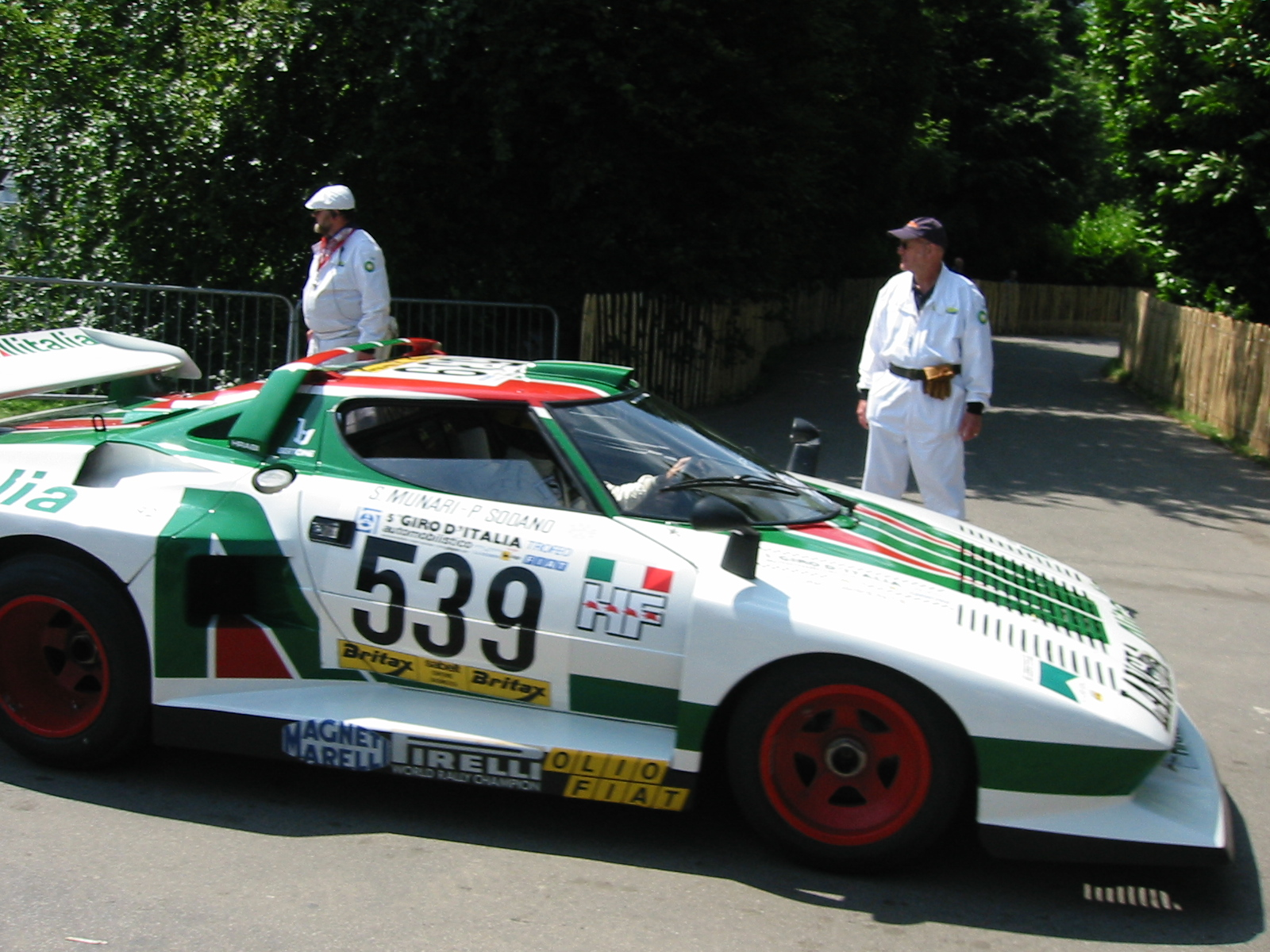 Built 1975. The only survivor of two factory Group 5 racing versions of the Stratos rally car. Powered by fuel-injected dry sump turbochrged V6 developing 560bhp and weighing just 850kg. Not seen in public for nearly 30 years.